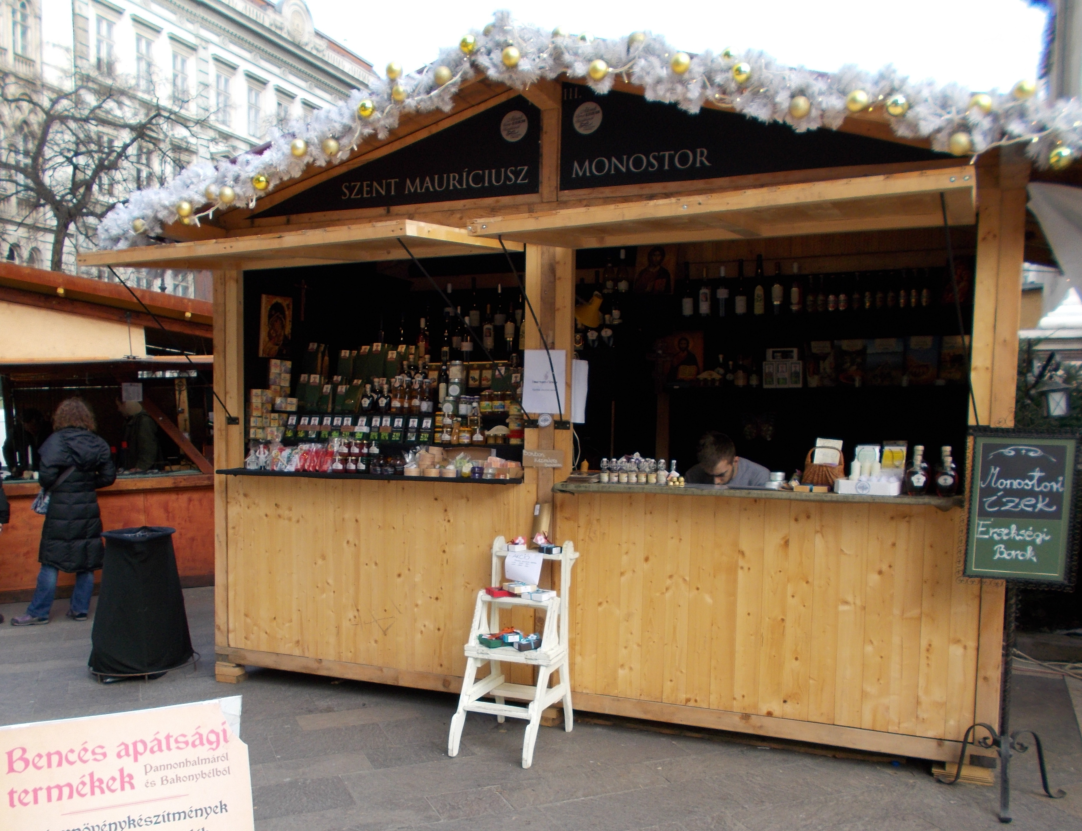 Christmas Fair at St. Stepehen Basilica. Benedictine abbey's berry products, herbs, handmade chocolates, religious objects.